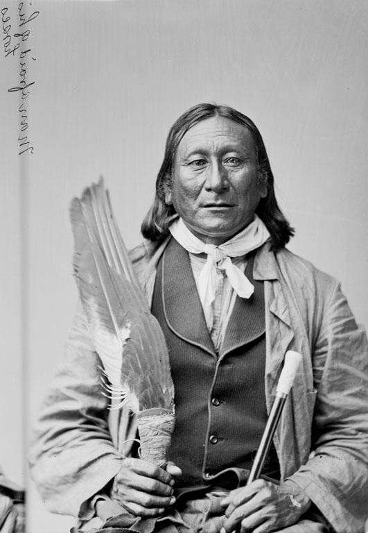 Portrait (Front) of Chief Tasunkakokipapi or Ta-Shung-Ga-Ko- Ke-Pa (One Whose Horse Is Feared), Called Young Man Afraid Of His Horses, an Oglala Lakota chief, holding a cane and fan.